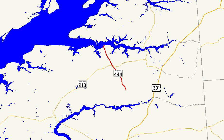 Map of Maryland Route 444